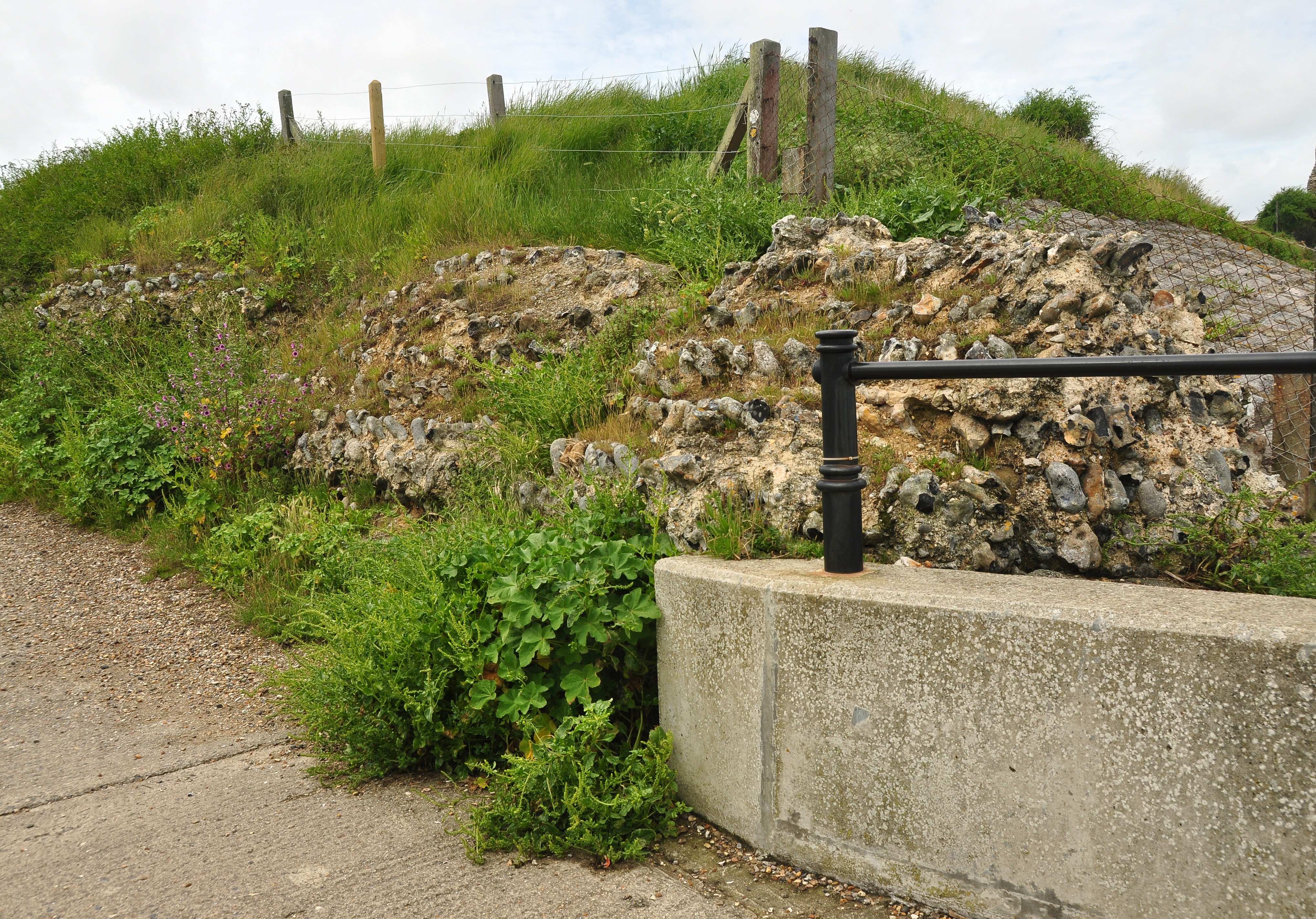 The remains of perimeter wall of Regulbium - a Roman fort - at Reculver in Kent, where it meets the modern sea wall.